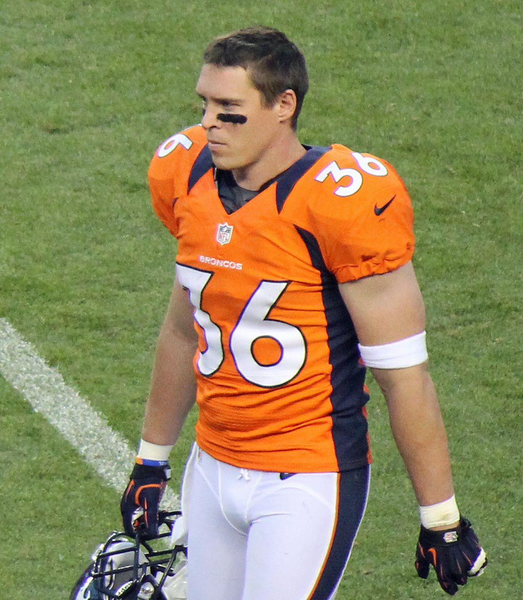 Jim Leonhard, a player on the National Football League.